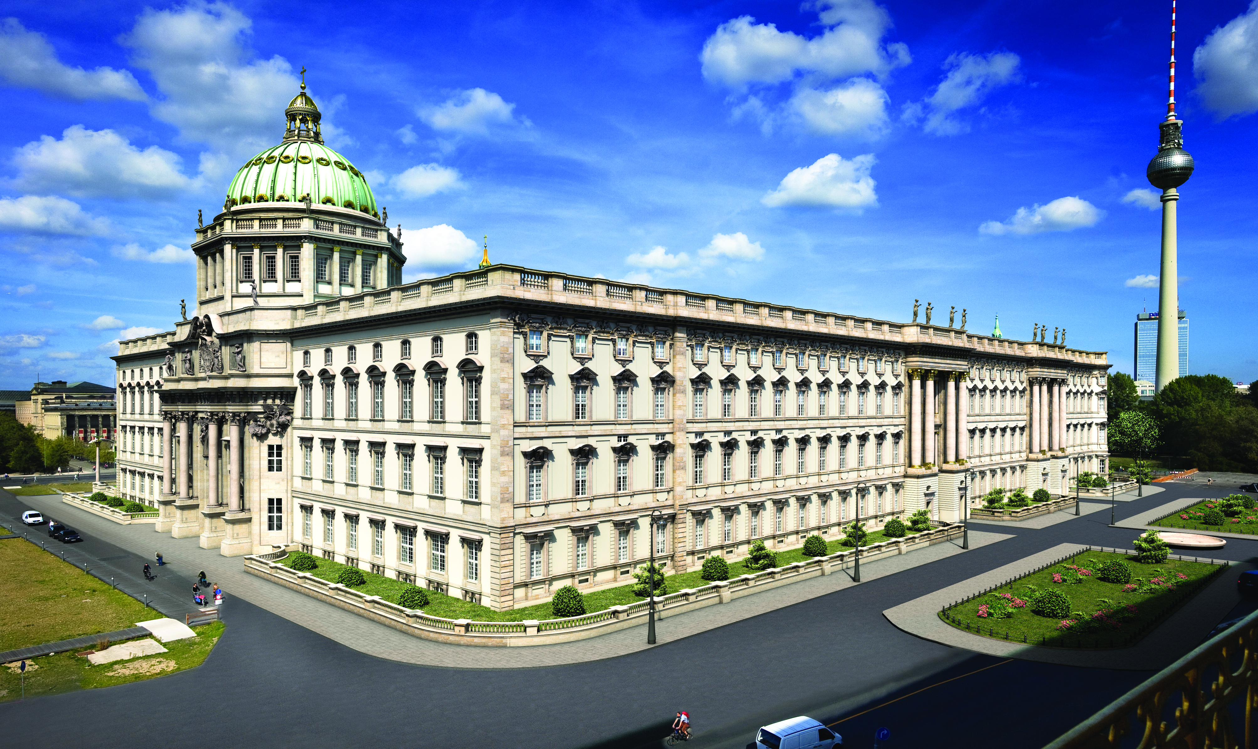 Stadtschloss Berlin after restoration 3D mapping